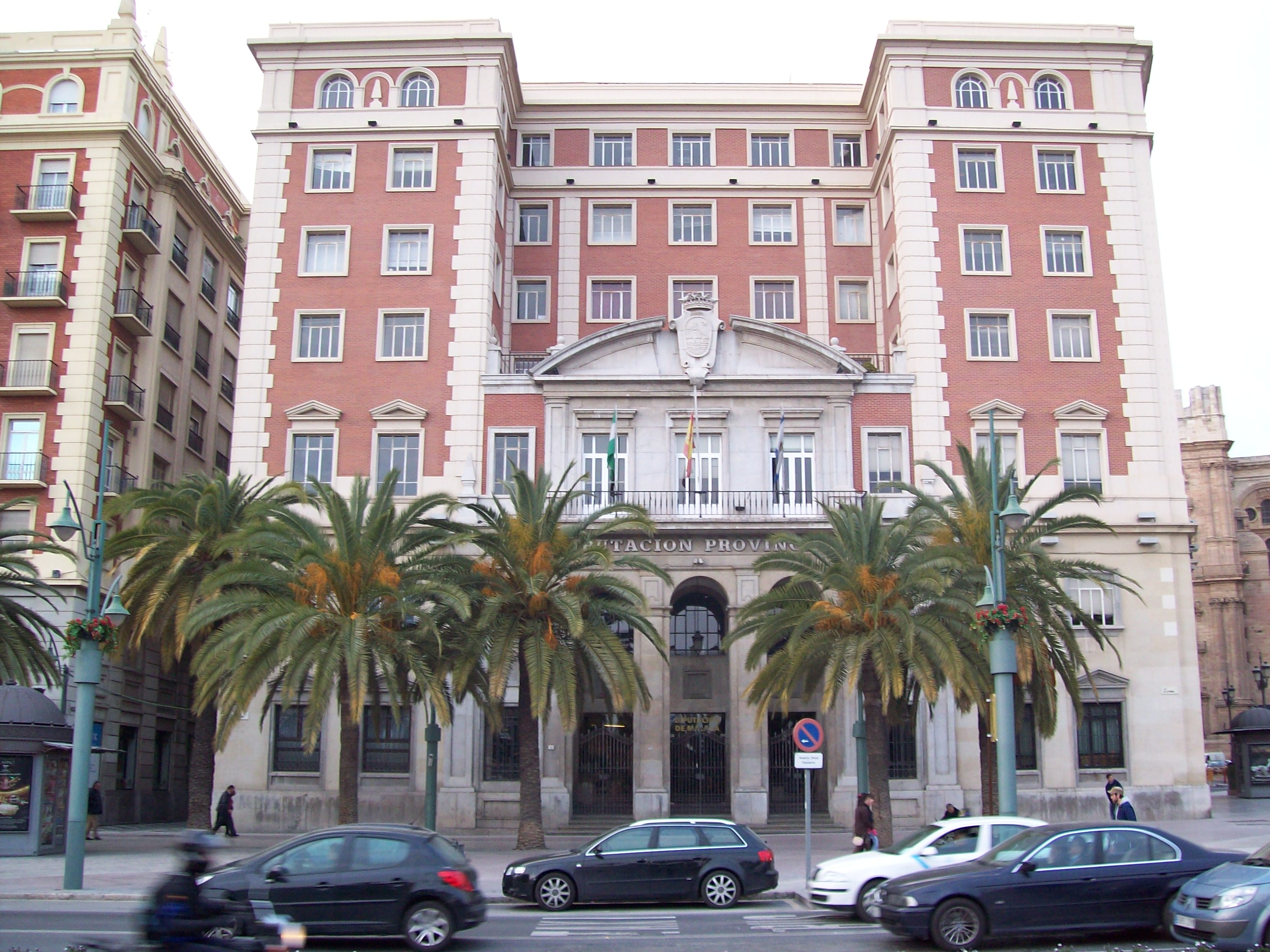 Old Palace of the Málaga Provincial Council, Spain